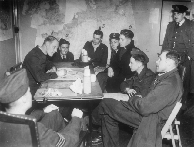 AWM caption : RAF Station Bottesford, Leicestershire, England. 1943-03-04. Members of the crew of a Lancaster bomber of No. 467 Squadron RAAF reporting to the Intelligence Officer on their return from a raid on Hamburg. "We saw 4,000 lb "cookies" bursting fifty miles before we reached the target", this Lancaster crew told the Intelligence Officer. Left to right: Sergeant (Sgt) Lockwood, RAF, Navigator Flight Lieutenant (Flt Lt) Millward, Intelligence Officer Sgt Pritchard, RAF, Rear Gunner Sgt Davis, RAF, Engineer 400415 Flying Officer G. H. Joseph, Wireless Operator 406641 Flt Lt J. M. Desmond, Pilot Sgt Cribbin, RAF, Bomb Aimer Pilot Officer Cazaly, RAF, Mid Upper Gunner